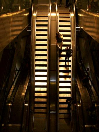 Paris metro